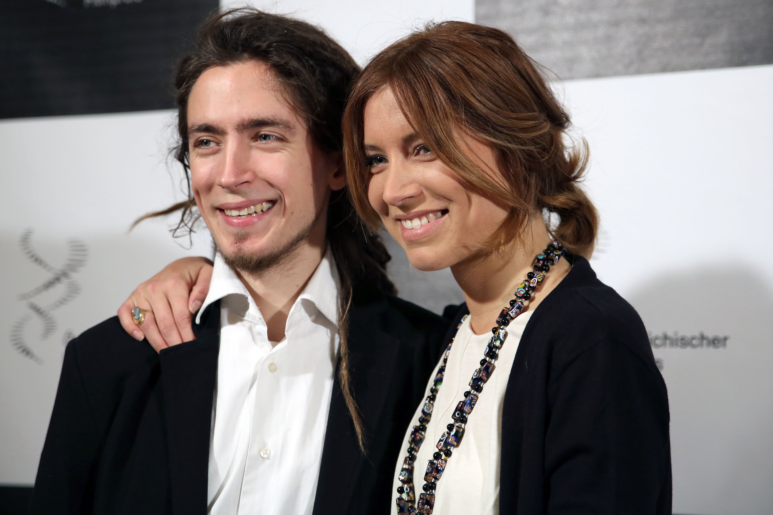 Conrado Molina and Catalina Molina, Austrian Film Awards 2013 (Vienna).